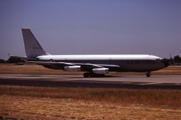 PictionID:43724376 - Catalog:17.S_000248 - Title:Boeing RC-135A 63-8061 22BW McClellan AFB 3Jun79 [Peter B.Lewis via RJF] - Filename:17.S_000248.tif - ----Image from the René Francillon Photo Archive. This images is from a 35mm slide. Having had his interest in aviation sparked by being at the receiving end of B-24s bombing occupied France when he was 7-yr old, René Francillon turned aviation into both his vocation and avocation. Most of his professional career was in the United States, working for major aircraft manufacturers and airport planning/design companies. All along, he kept developing a second career as an aviation historian, an activity that led him to author more than 50 books and 400 articles published in the United States, the United Kingdom, France, and elsewhere. Far from “hanging on his spurs,” he plans to remain active as an author well into his eighties.-------PLEASE TAG this image with any information you know about it, so that we can permanently store this data with the original image file in our Digital Asset Management System.--------------SOURCE INSTITUTION: San Diego Air and Space Museum Archive